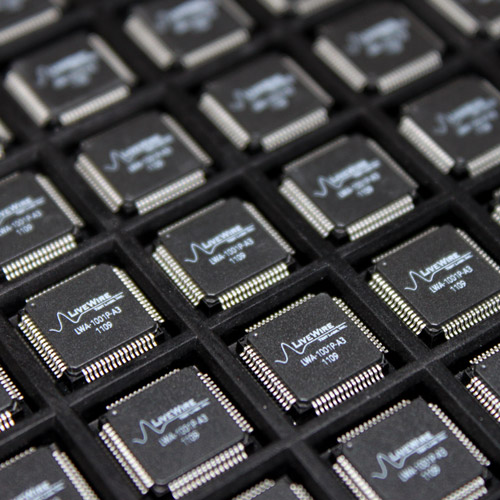 Base of the LiveWire Innovation Technology.